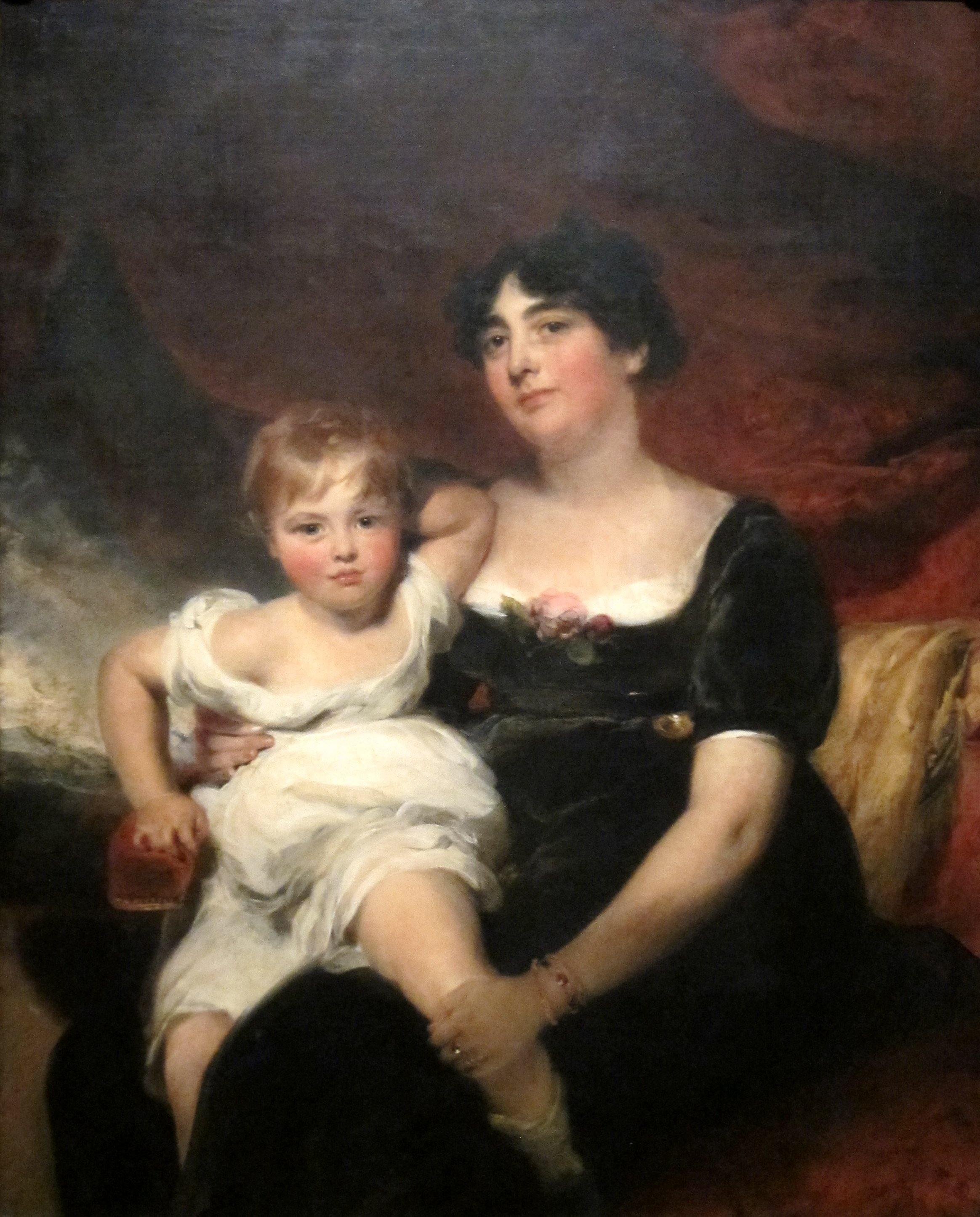 Mrs. Francis Gregg, née Janet Bell (1761-1841), married Francis Gregg, son of Francis Gregg, M.P. (1734-1795) in 1790. The elder Gregg was an attorney and agent for the 5th Earl of Carlisle, and represented Morpeth 1790-95, resigning when Lord Carlisle's son, Viscount Morpeth (later the 6th Earl) came of age. He also served as Clerk for the Skinners' Company from 1759 until his death. Francis Gregg, Jun. (1761-1825) was also an attorney and succeeded his father as both Lord Carlisle's agent and as Clerk of the Skinners' Company. George (1802-1828) attended Harrow 1814-1819 and was called to the bar in 1825. He also succeeded his father as Clerk of the Skinners' Company. He had a younger brother, William (1807-1823) (born after this portrait was painted), and an older brother, Francis (1794-1840), also an attorney, who published several treatises on bankruptcy law. The family had a seat at Wallington in Surrey.